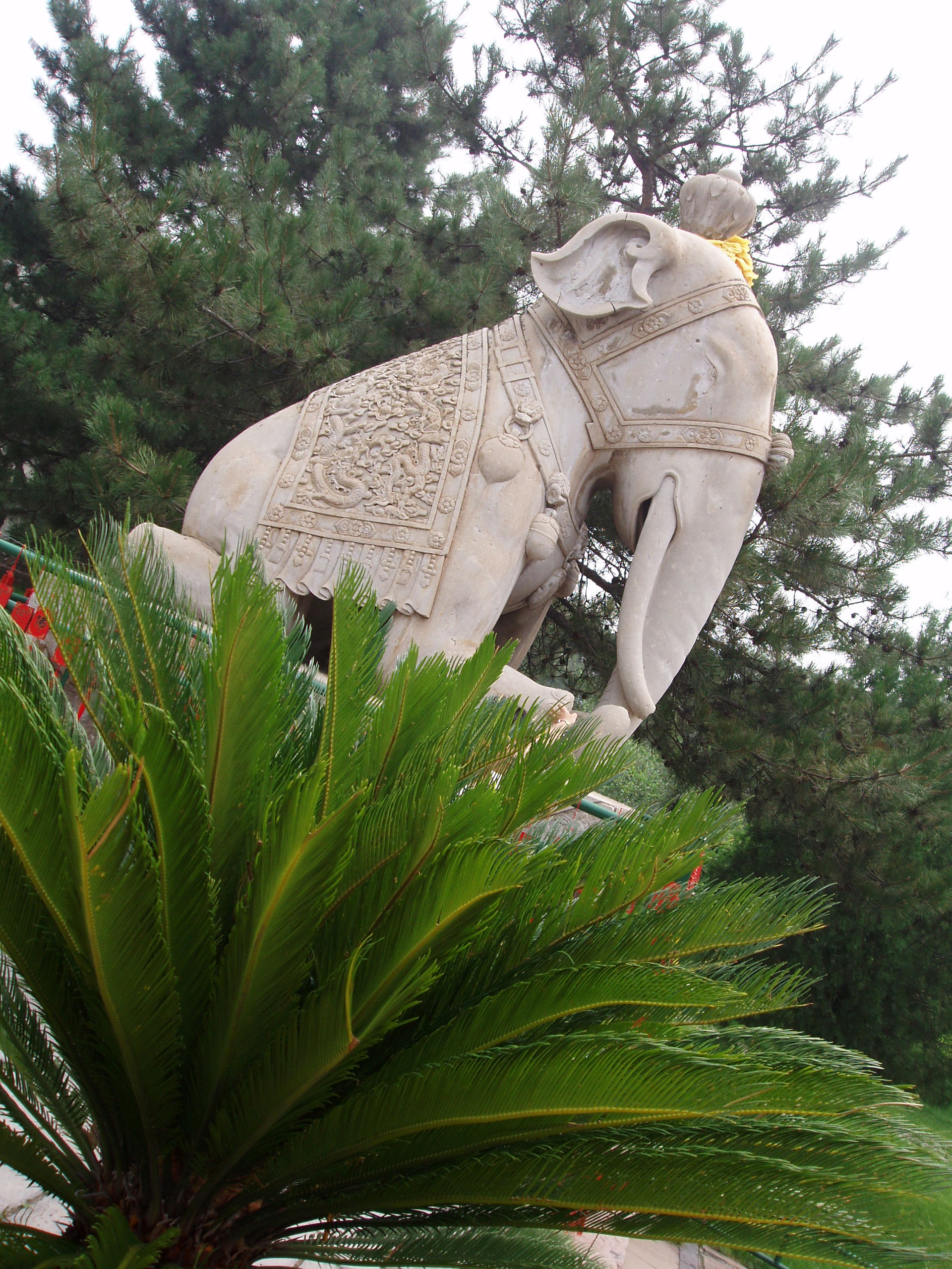 Putuo Zongcheng Temple in Chengde, China